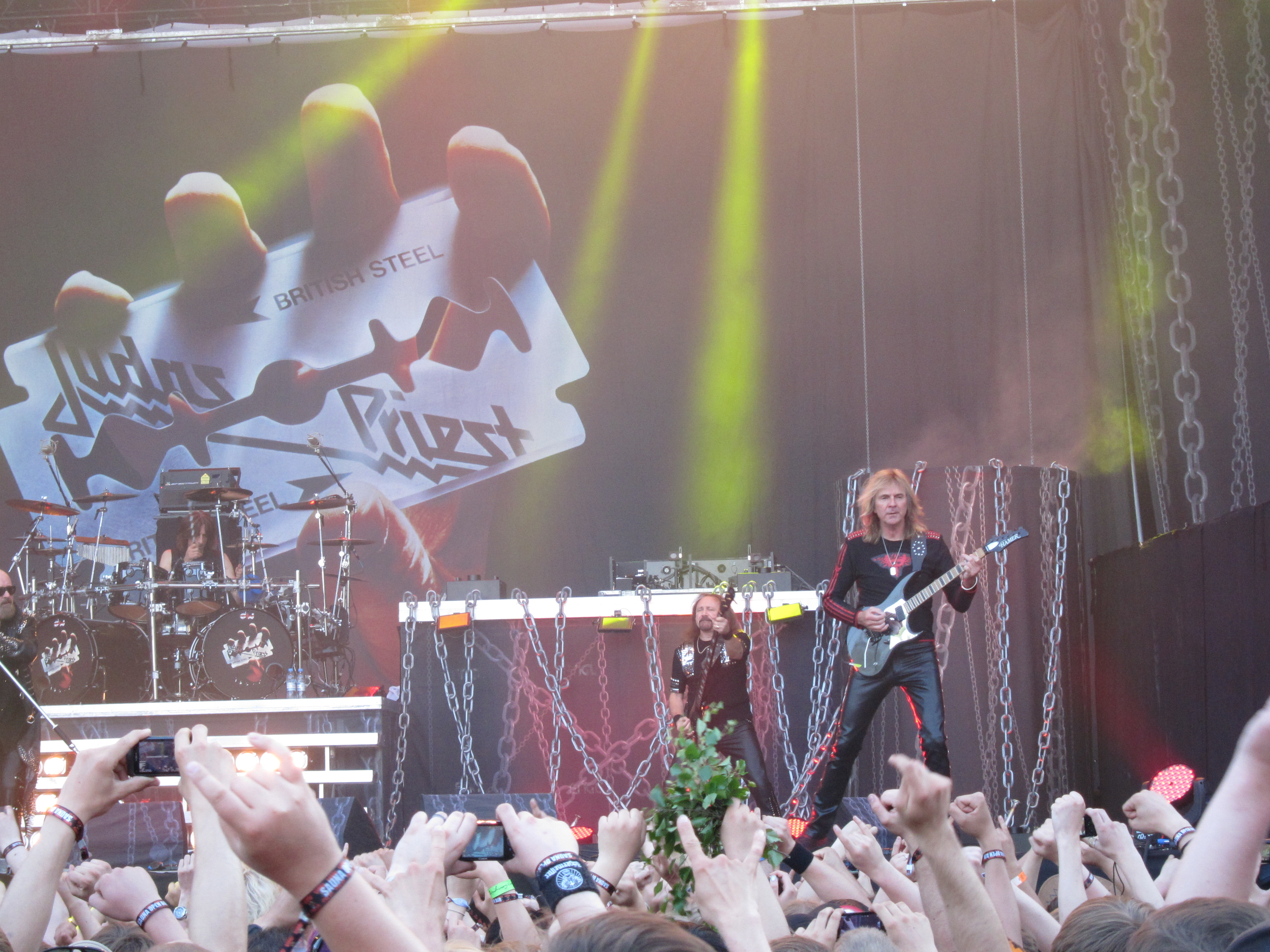 Judas Priest performing at the Sauna Open Air Metal Festival in Tampere, Finland.